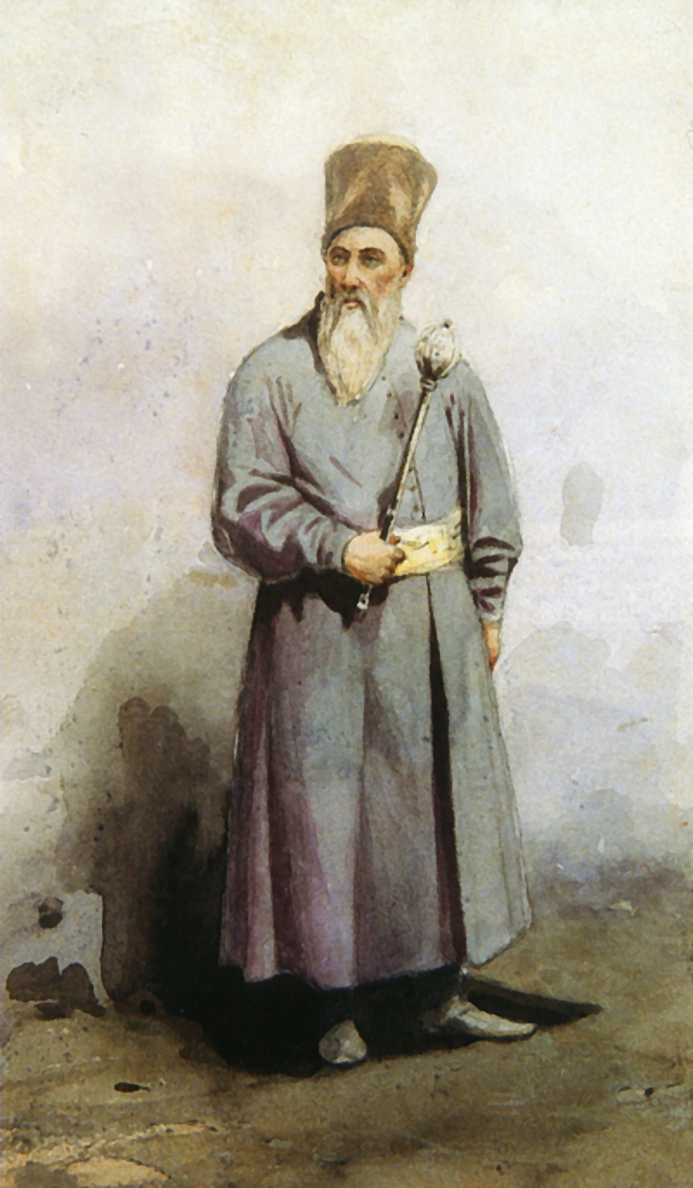 Petro Konashevych-Sahaidachny by Ukrainian artist Serhii Vasylkivsky